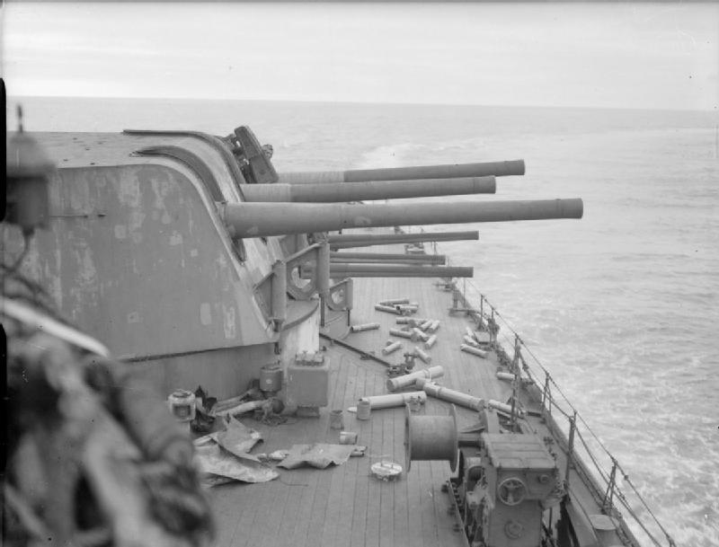 The two forward 6-inch gun turrets of the Town class cruiser HMS SHEFFIELD after she had opened fire and sunk the German tanker FRIEDERICH BREME in the North Atlantic. Comment : Note the rounded contours of the Mk XXII turret.